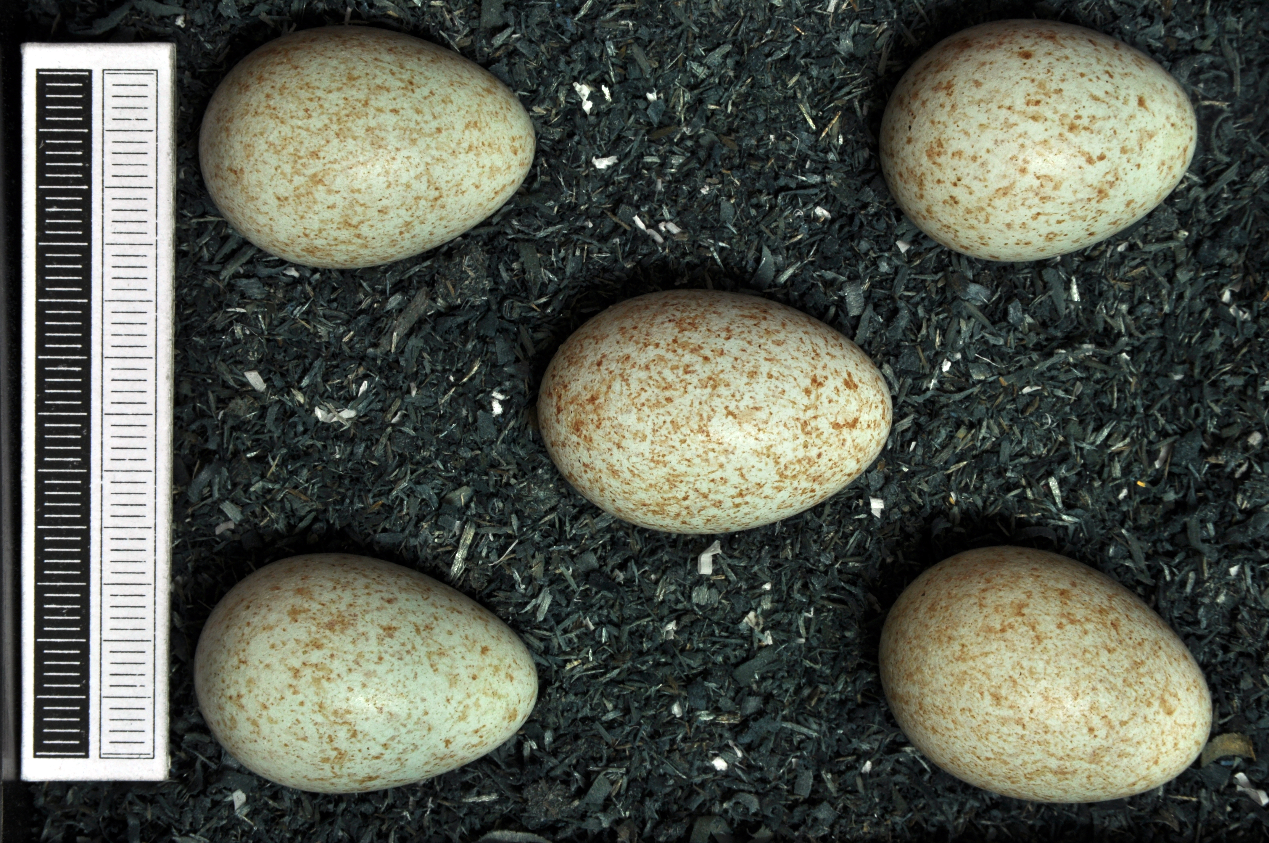 Common blackbird Turdus merula, egg, Coll. Museum Wiesbaden, Origin: Ismaning, Bavaria, 13.05.1973, leg. W. Abelmann